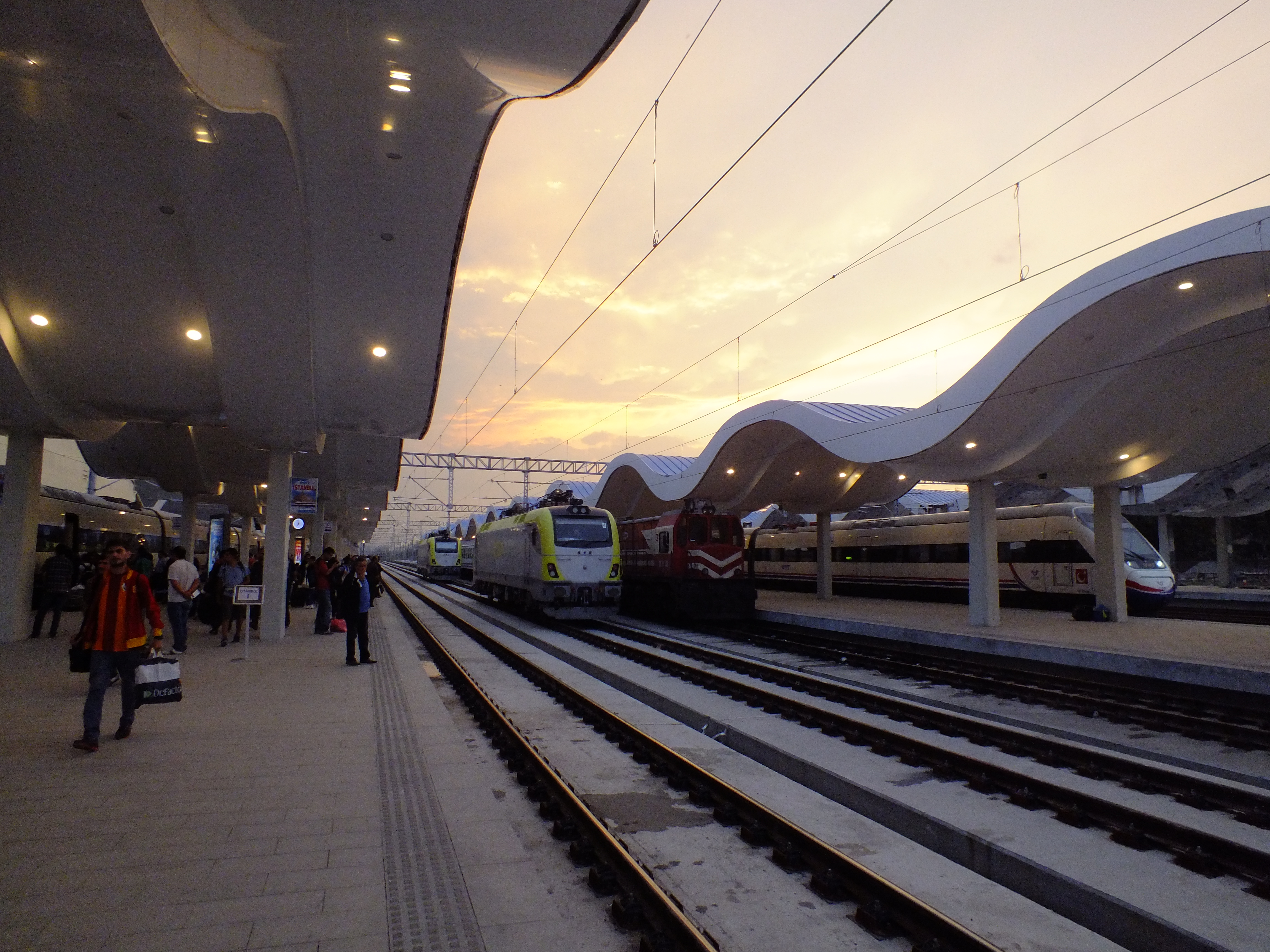 The new platforms at Eskisehir station.